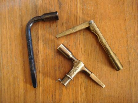 It is three models of keys of Bern, used fluently by the personnel of the FRENCH NATIONAL RAILWAY COMPANY